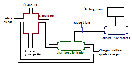 Details of the charged aerosol detector